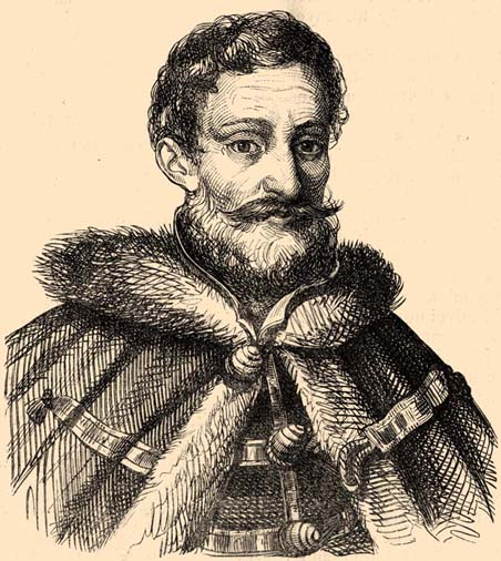 Portrait of István Verbőczy